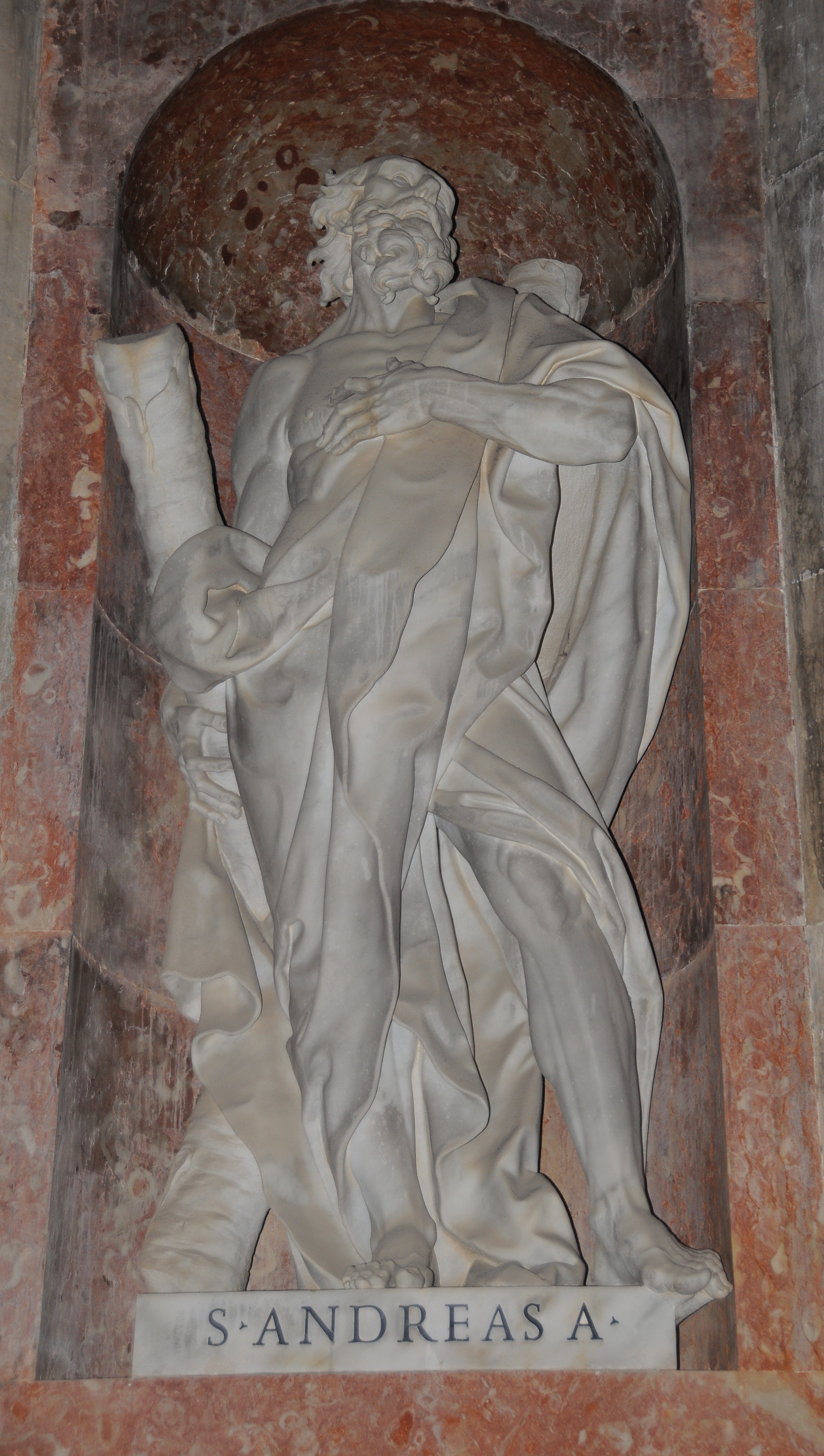 Statue of Saint Andrew in the Church of Mafra National Palace, Mafra, Portugal.